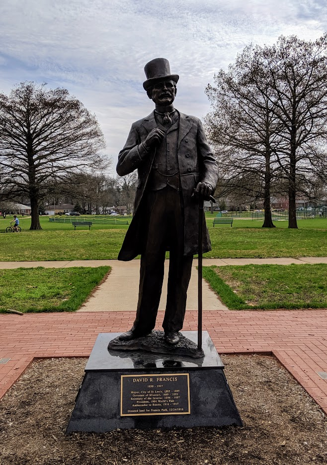 This photo is of a statue of David R. Francis. It is located in Francis Park in St. Louis, Missouri, USA.